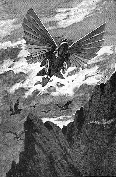 An illustration from Jules Verne's novel "Master of the World" (1902-03) drawn by George Roux.